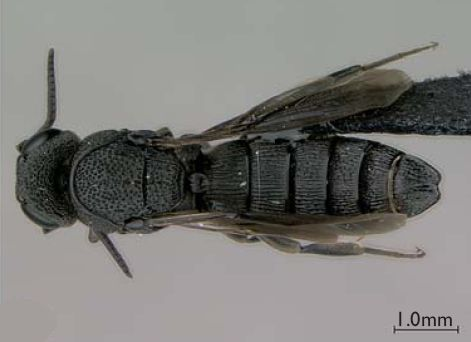 Holotype female of Nixonia mcgregori, dorsal view.